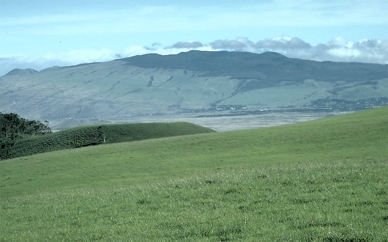 View north toward Kohala Volcano from the slopes of Mauna Kea. Photograph by J. Kauahikaua on August 26, 1994. Image courtesy of the US Geological Survey. Taken from USGS website [1].